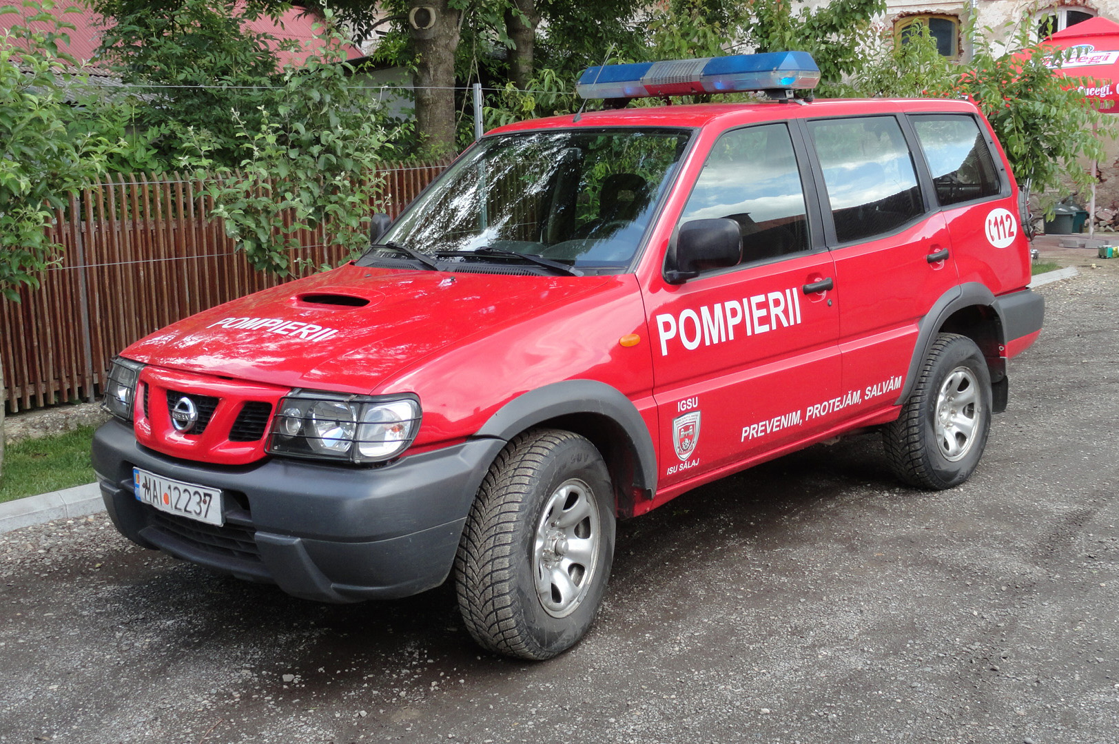 Nissan Terrano II - Fire engine, IGSU, ISU Sălaj